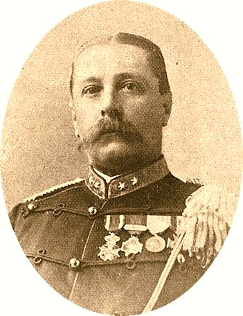 Luitenant kolonel Leyssius